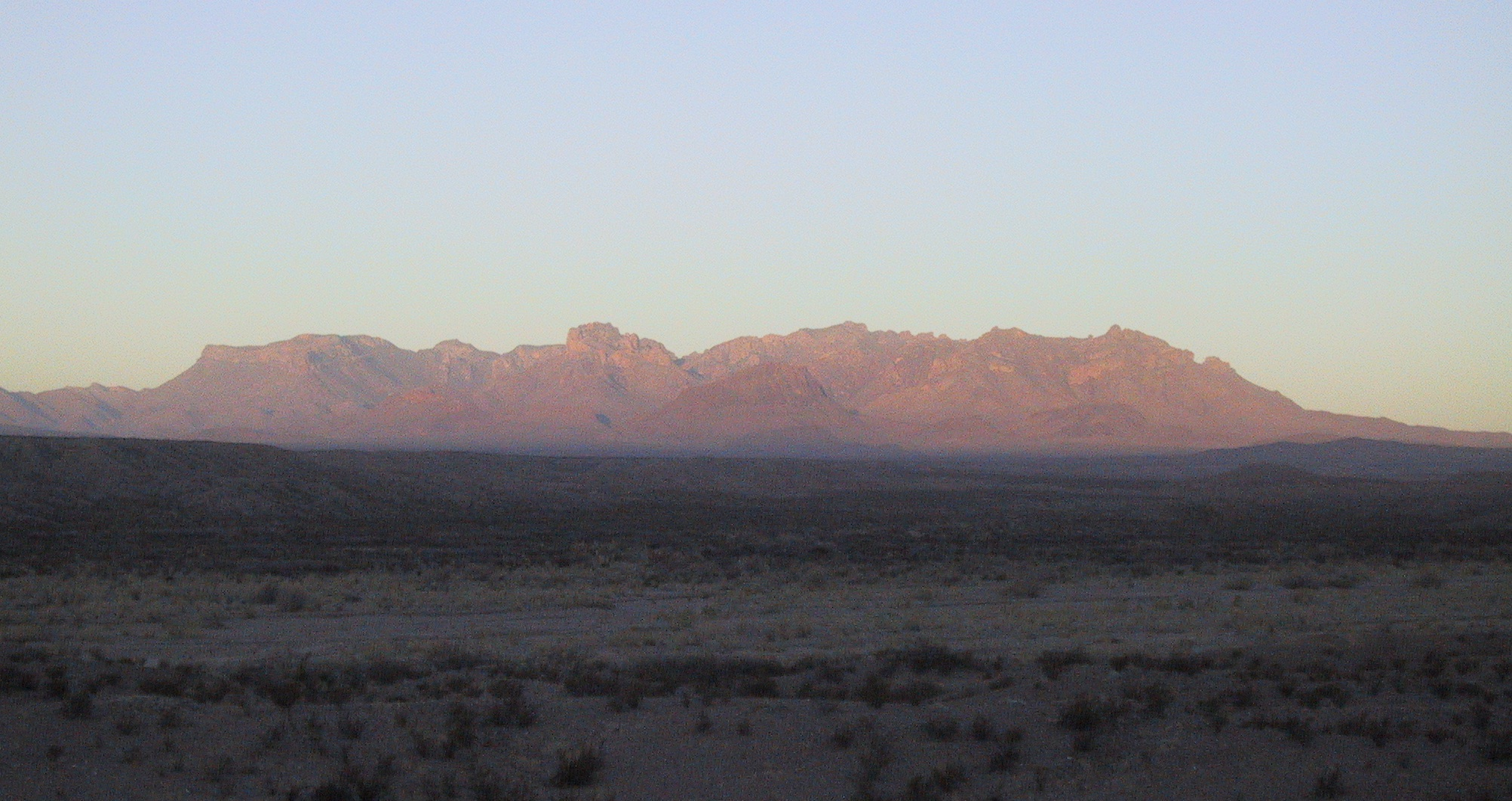 A photo of the Chisos mountain range from the desert to the east at sunrise, 22 Feb 2002. This photo shows the entire mountain range, the only mountain range contained entirely within a national park.